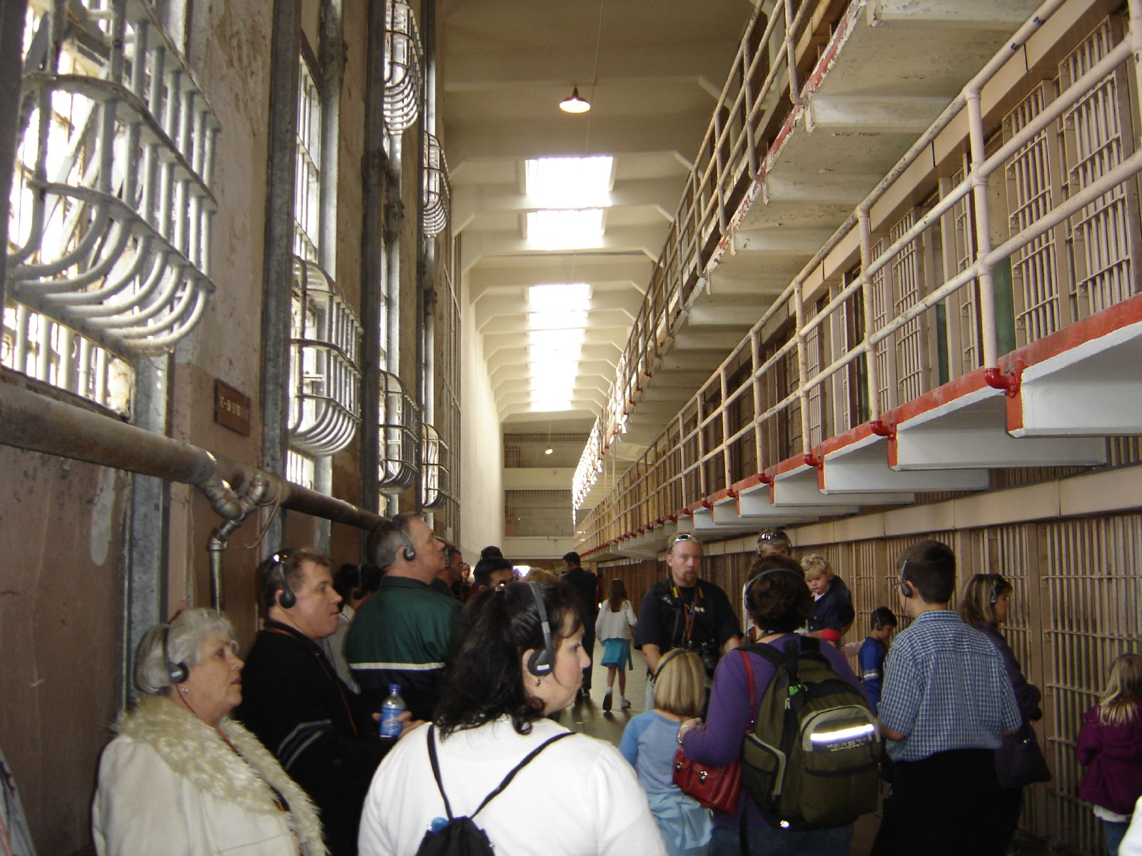 United States Penitentiary, Alcatraz Island. Tourists in the segregation block, D-block